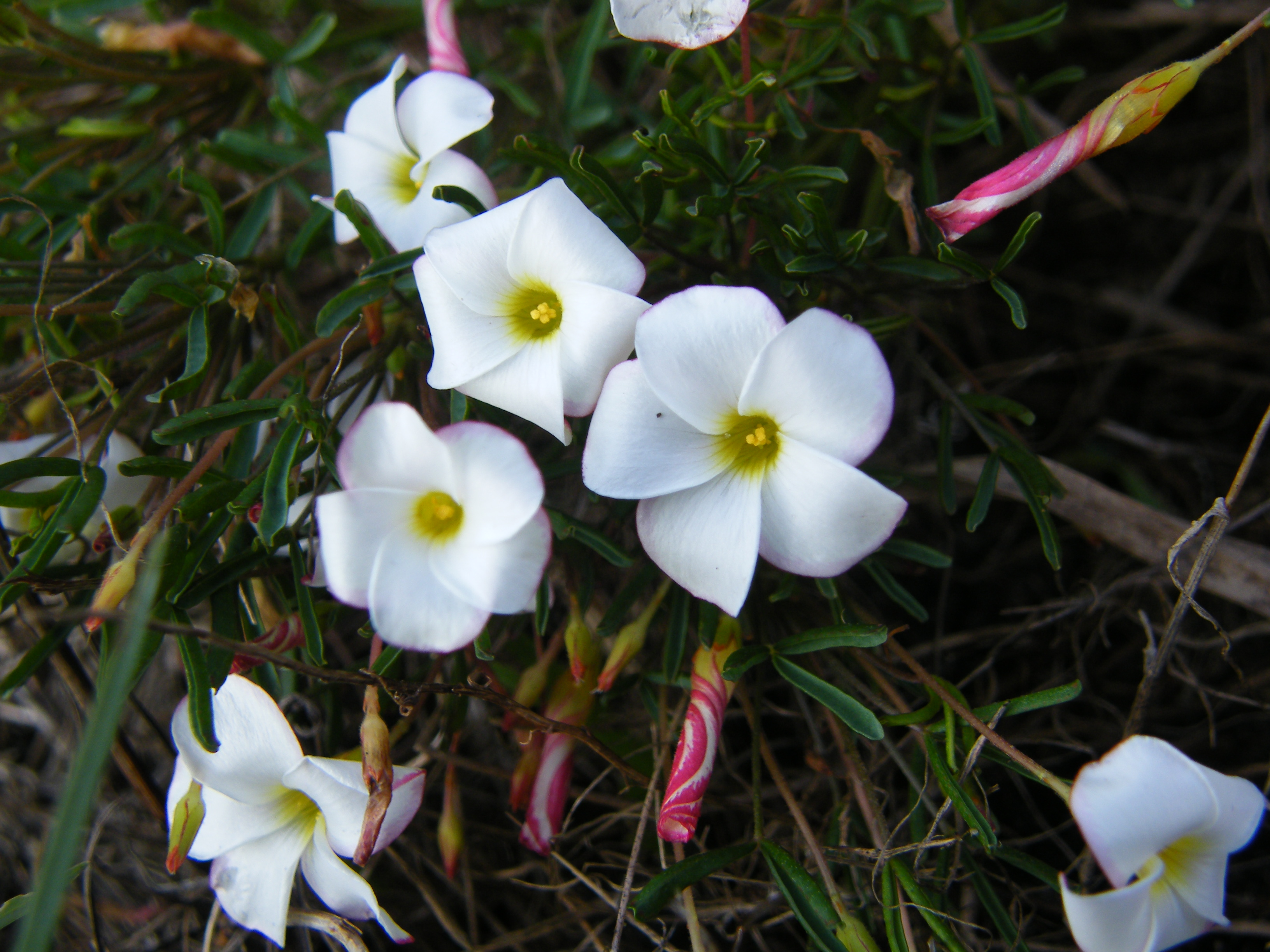 Oxalis